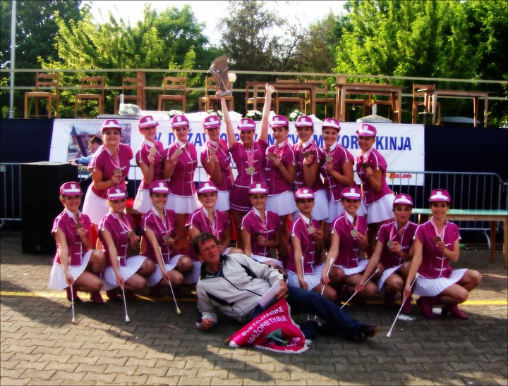 Brončana medalja- Oroslavje